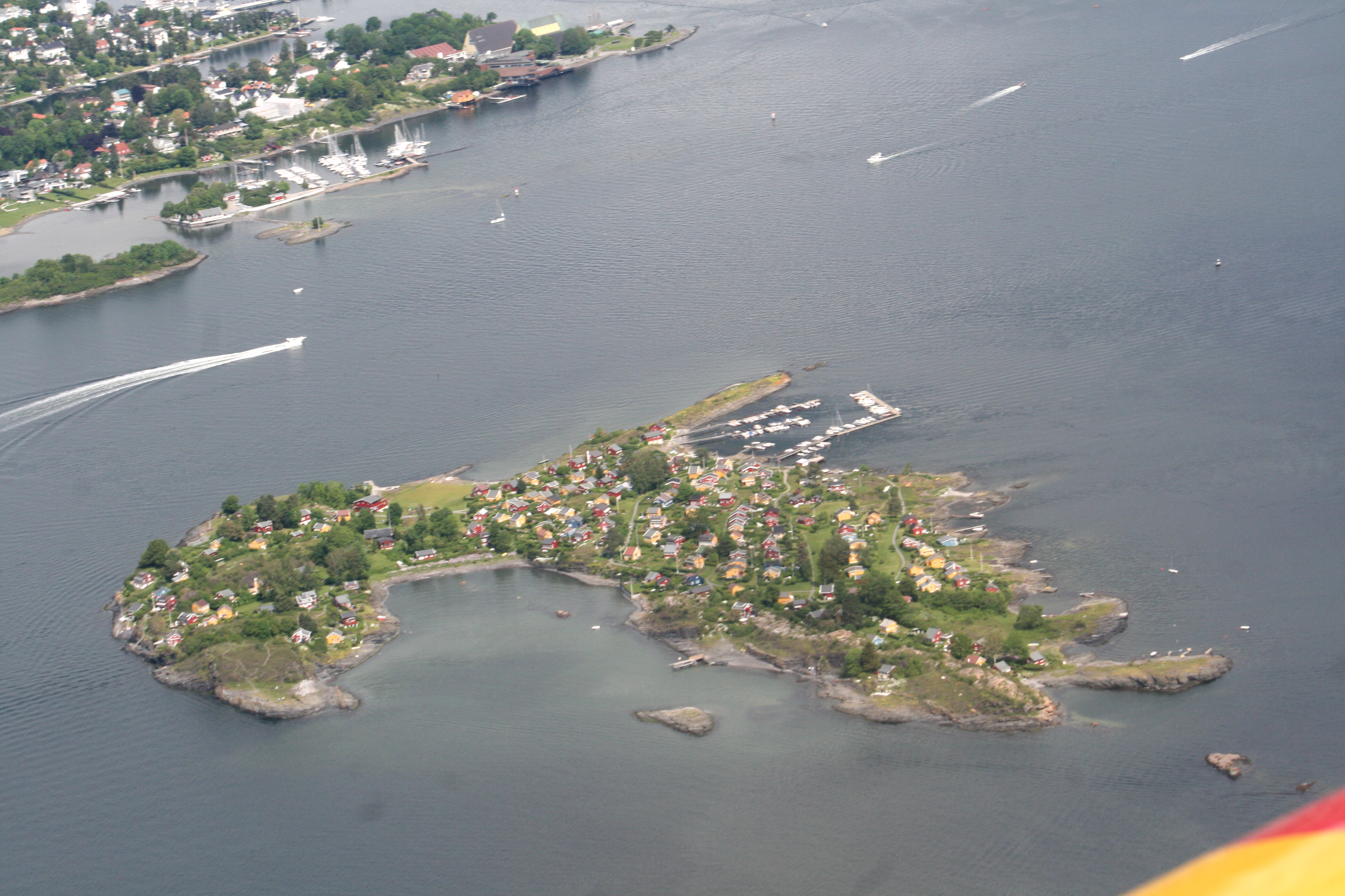 Aerial photograph from June 14th, 2015. The island Nakkholmen in Oslo.